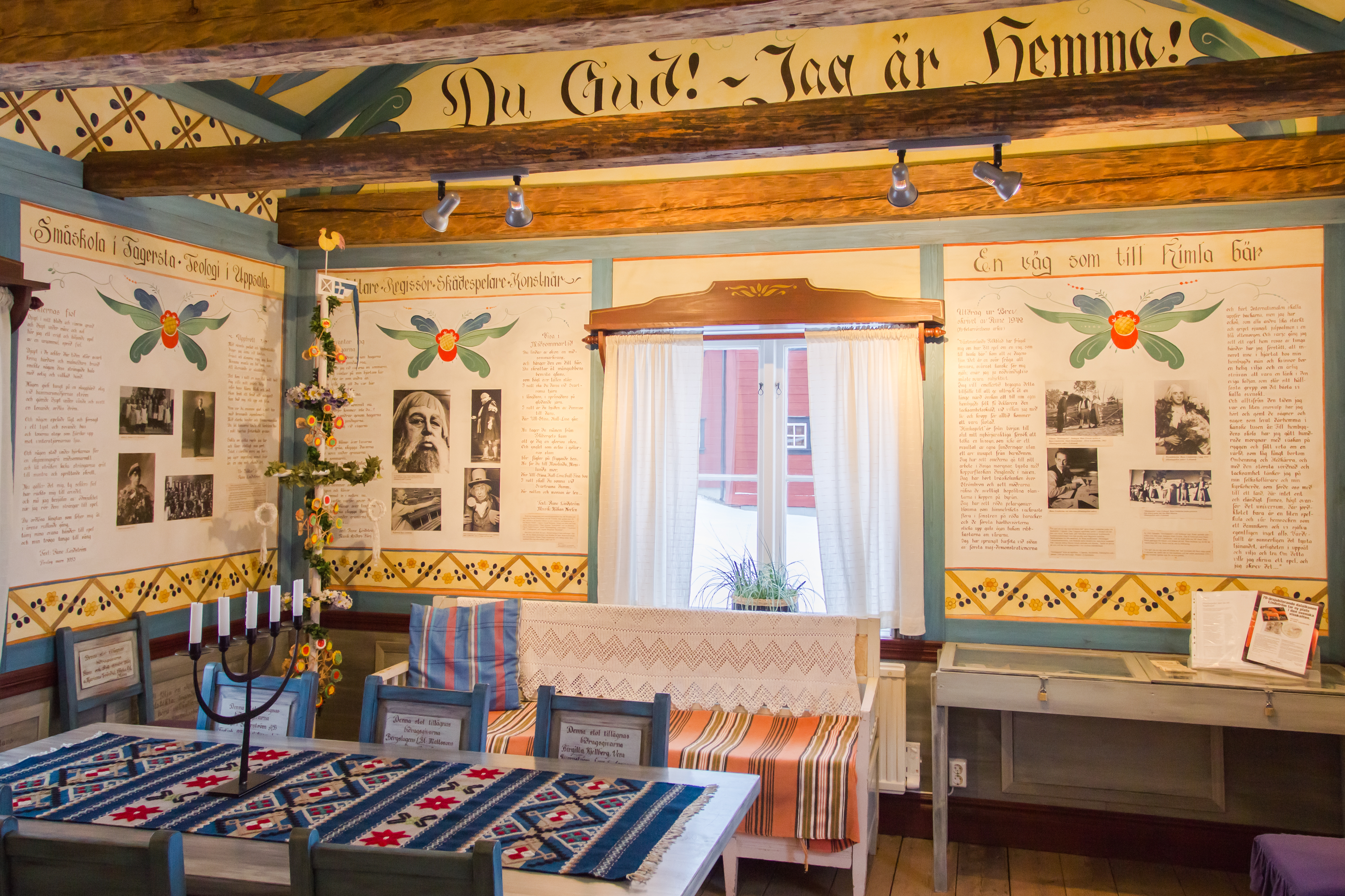 Rune Lindström museum, Fagersta-Västanfors local heritage centre/homestead museum, Fagersta, Västmanland County, Sweden.